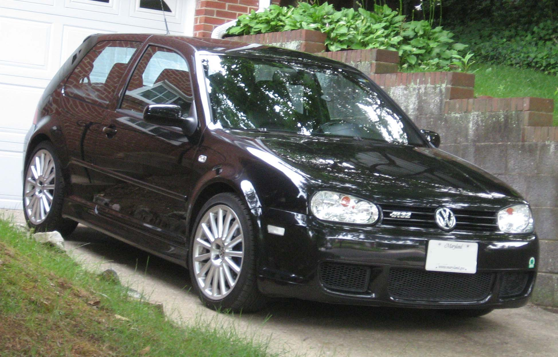 Volkswagen Golf R32 photographed in USA.